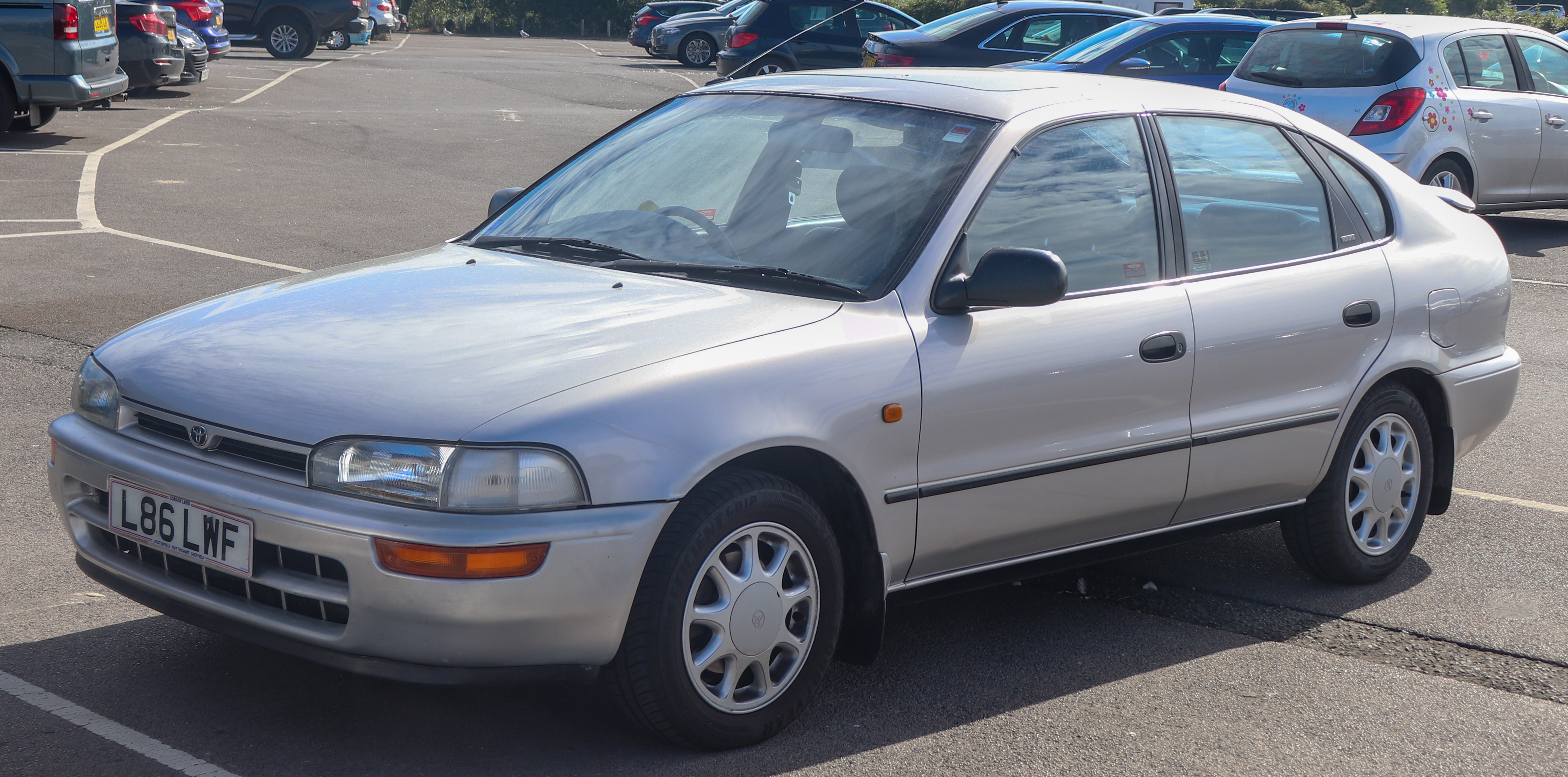 1993 Toyota Corolla Executive Automatic 1.6 Front (Well-kept example) Taken in Weymouth, Dorset